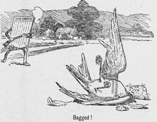 Cartoon in the Evening Express (Wales)- Commentary on the exposure by the Daily Chronicle of the would-be explorer 'Louis De Rougemont'. The cartoon is probably by Western Mail regular Joseph Morewood Staniforth, but does not have his regular JMS signature.